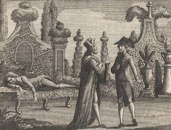 Illustration of Carl Goldoni's libretto for the opera Il mondo della luna, composed by Baldassare Galuppi